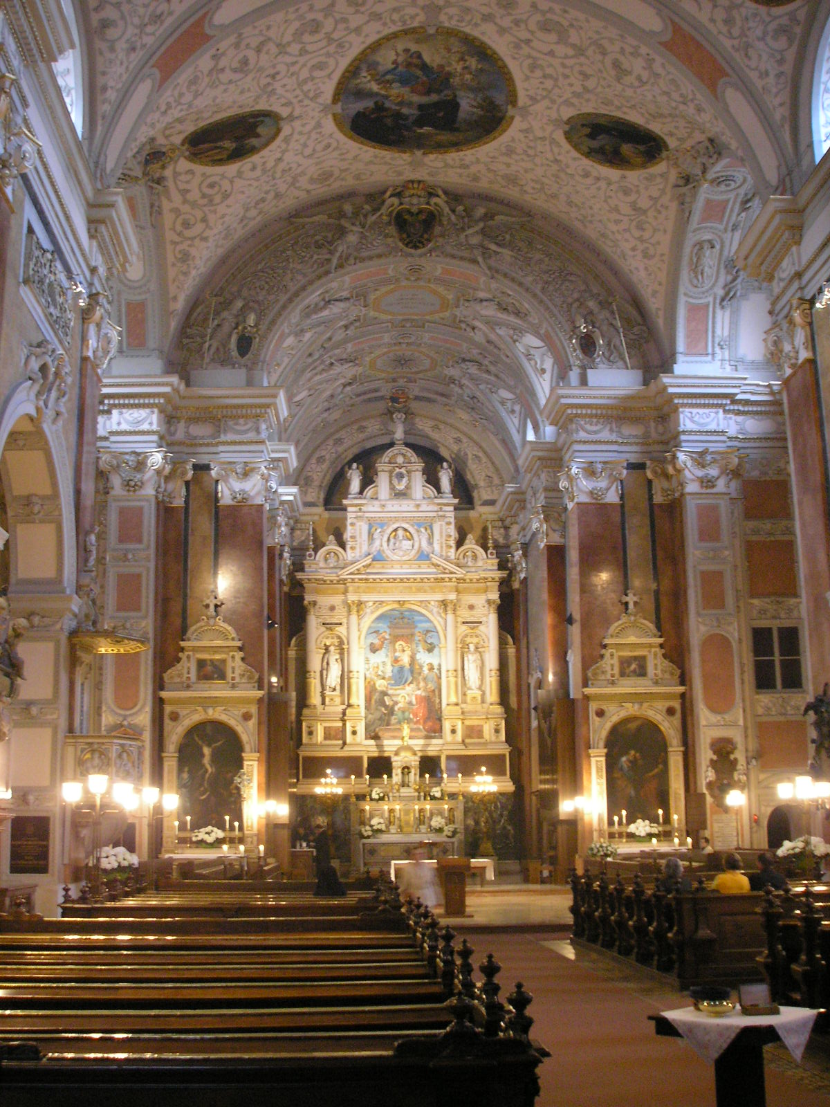 Interior view of the Schottenkirche in Vienna.